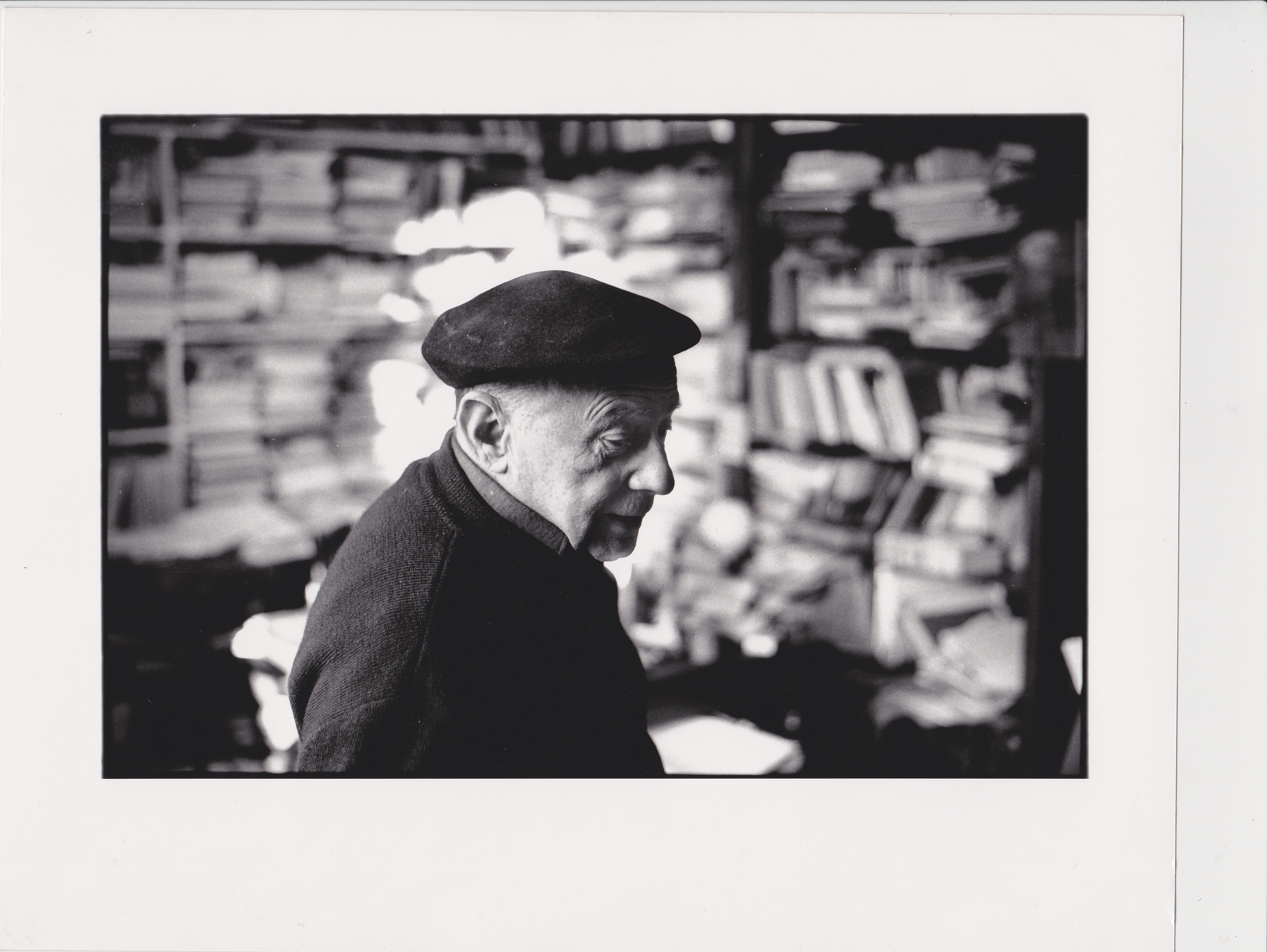 French sociologist and technology critique Jacques Ellul in his studio in Pessac, France. Photo taken as part of the filming of the documentary "The Betrayal by Technology" by ReRun Productions, Amsterdam, Netherlands.